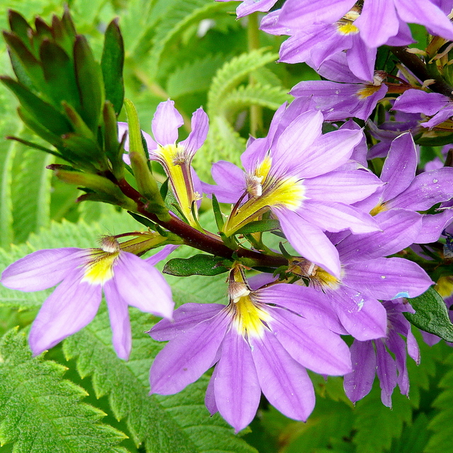 Scaevola aemula. A tender perennial plant originating from Australia used in the UK as a bedding/basket plant for summer displays of the distinctive scalloped blue flowers.